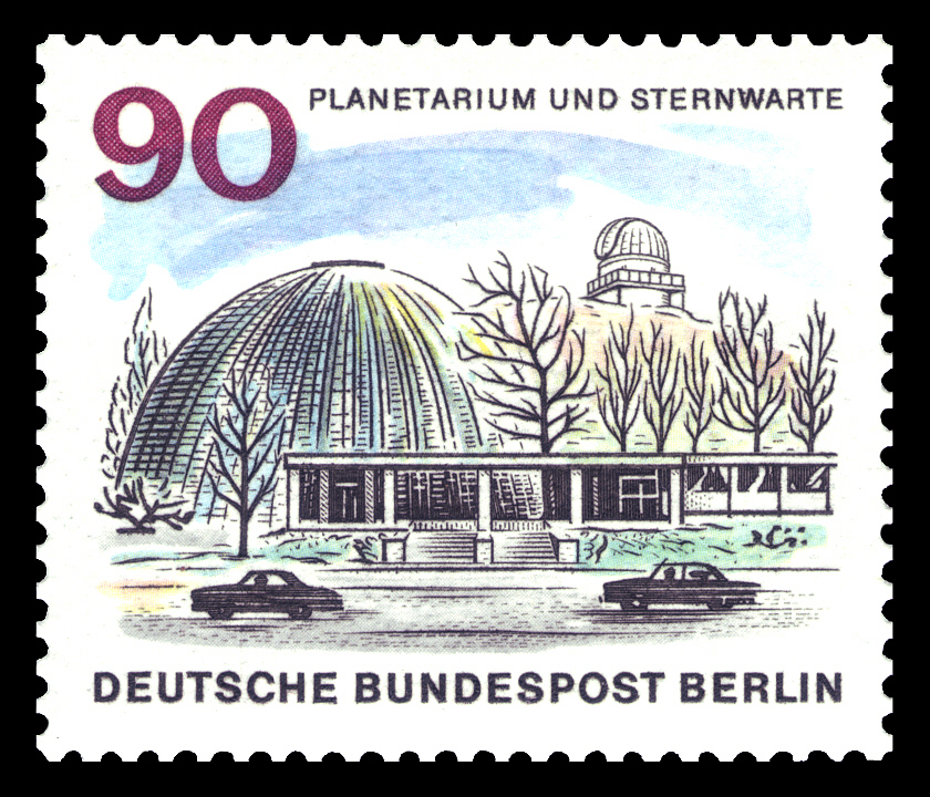 series "The new Berlin"